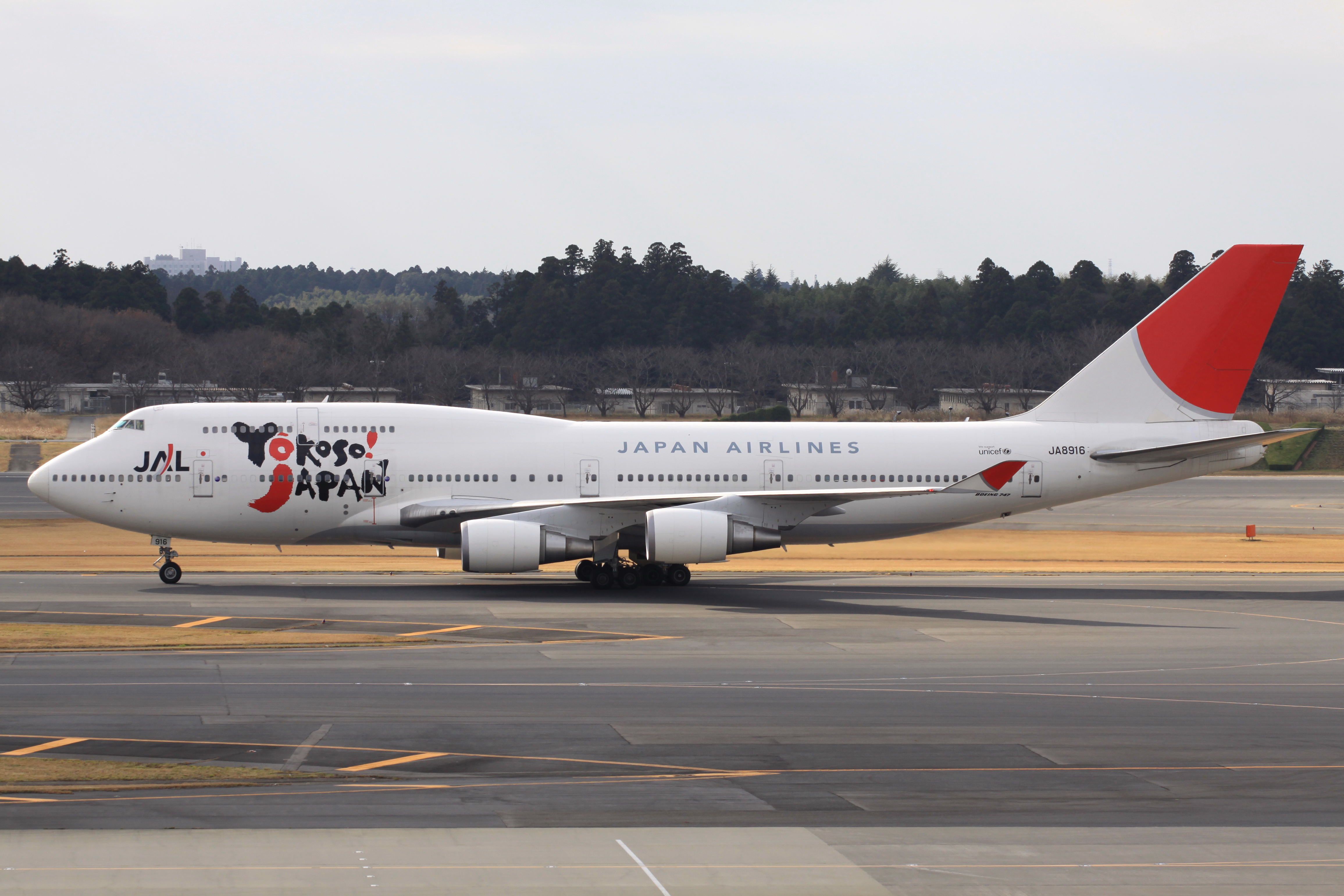 Narita International Airport, Boeing 747-446, c/n:26362 Japan Airlines